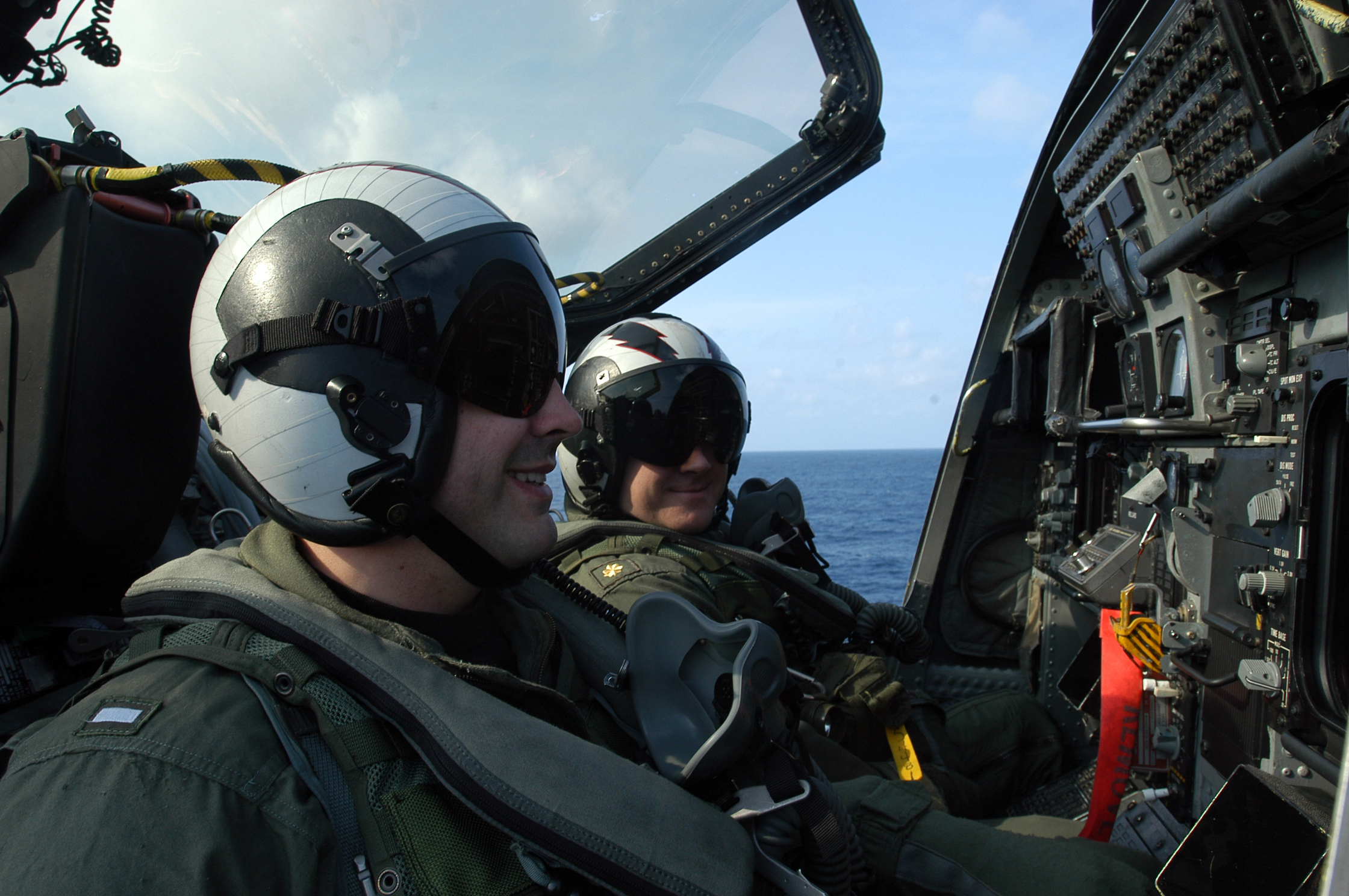 Aircrew, assigned to the "Shadowhawks" of Electronic Attack Squadron One Four One (VFA-141), perform pre-flight checks in the rear cockpit of their EA-6B Prowler prior to launch from the flight deck of USS Theodore Roosevelt (CVN 71). The Shadowhawks are embarked aboard Theodore Roosevelt as part of Carrier Air Wing Eight (CVW-8). Roosevelt is currently underway for Tailored Ship Training Availability and Final Evaluation Problem (TSTA/FEP) in the Atlantic Ocean.